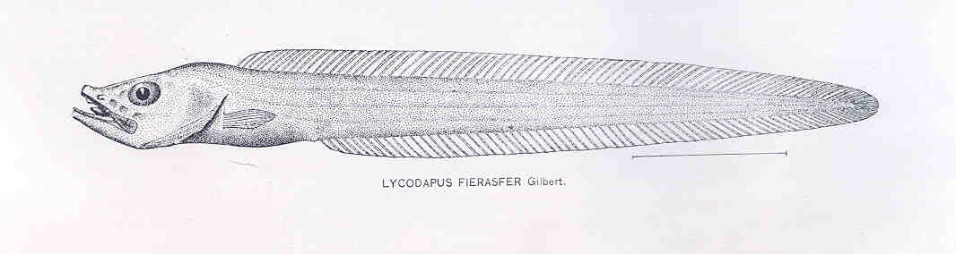 Lycodapus Fierasfer Gilbert Subject: Lycodapus fierasfer Tag: Fish